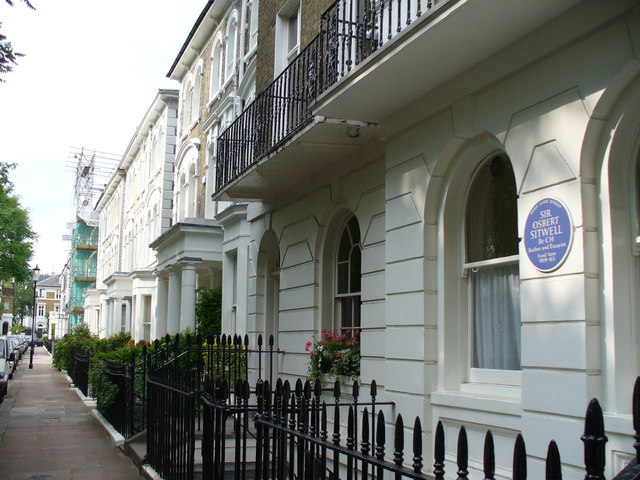 Carlyle Square Sir Osbert Sitwell, author and essayist, lived in this grand terraced house in Chelsea, just off the King's Road.